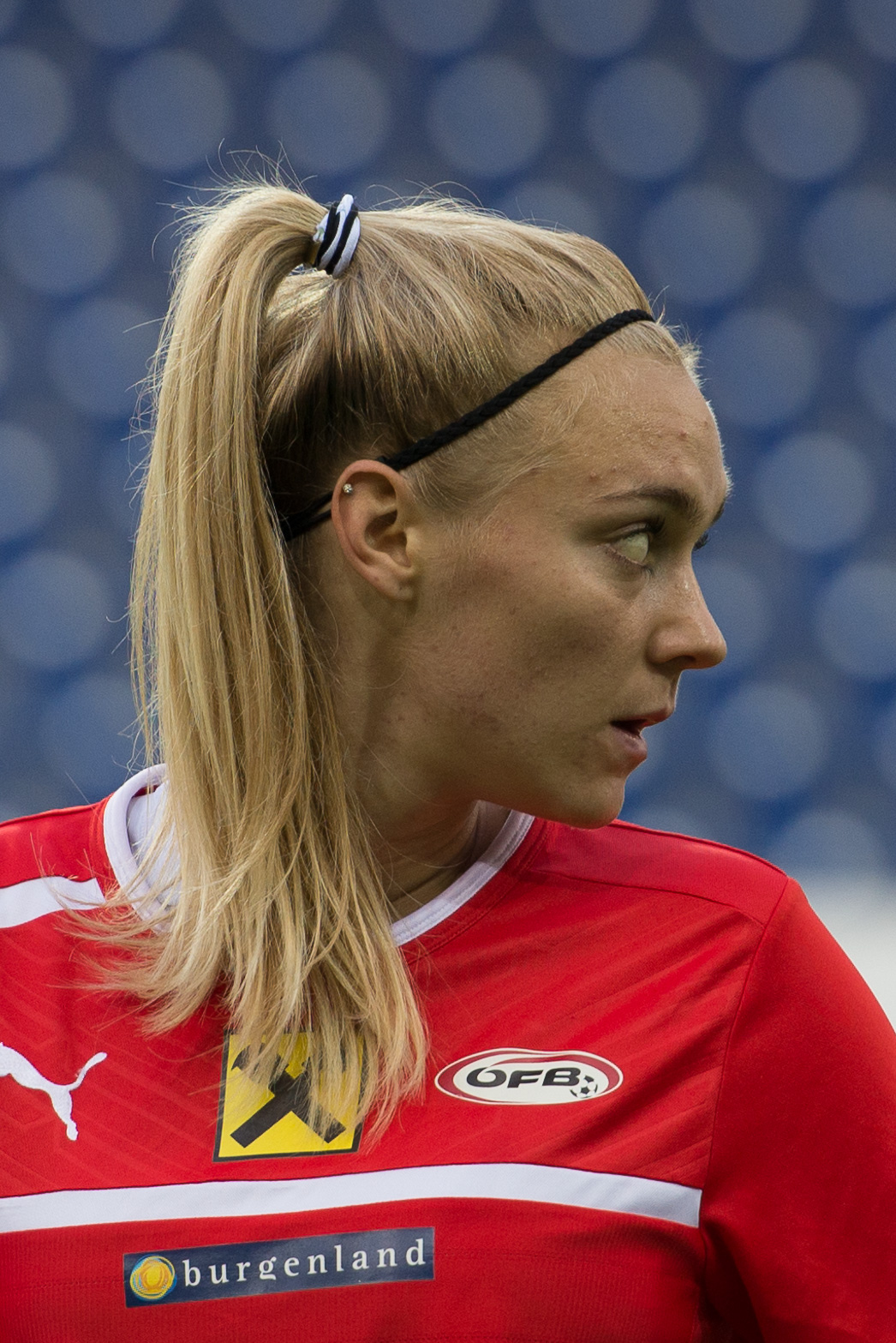 FIFA Women's World Cup 2015: Qualifying Round St. Pölten, 13.09.2014 Sarah Puntigam